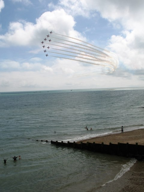 The Red Arrows at Eastbourne The Red Arrows Display Team flew in (punctually to the minute) to begin the 2009 Eastbourne Air Show and to WOW the thousands of onlookers with their stupendous airmanship - no wonder the bathers (left foreground) hold their arms outstretched in delight!